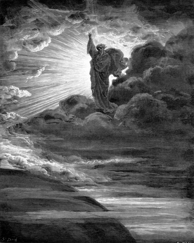 The Creation of Light (Gen. 1:1-5)